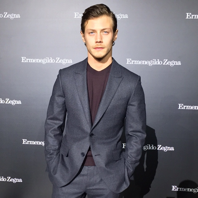 Actor McCaul Lombardi at launch of Zegna campaign, in Milan Italy. Image taken by actor's management - copyright free.